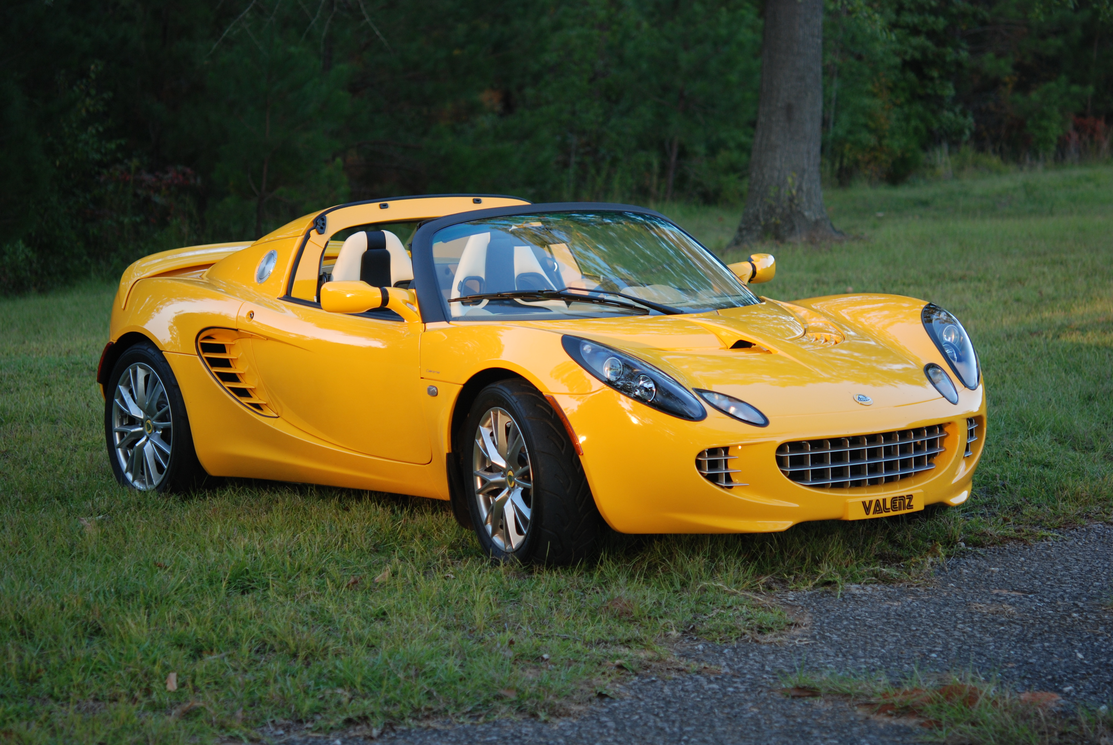 A 2008 Saffron Yellow Lotus Elise California Edition in West-Central Alabama.